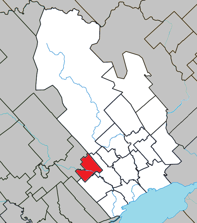 Location of Saint-Édouard-de-Maskinongé, Quebec within Maskinongé Regional County Municipality.